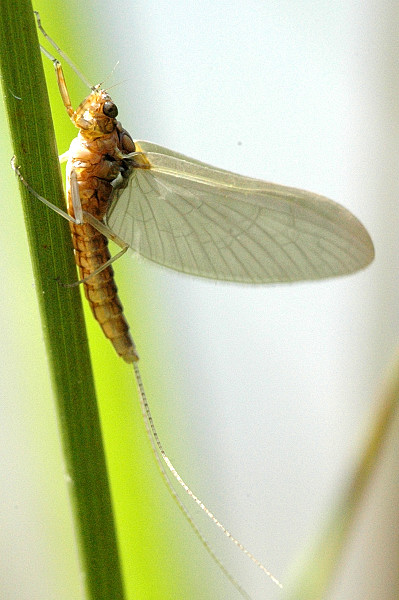 Picture taken in Commanster, Belgian High Ardennes . Species: Caenis horaria